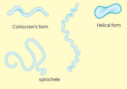 Common spiral bacteria arrangement.